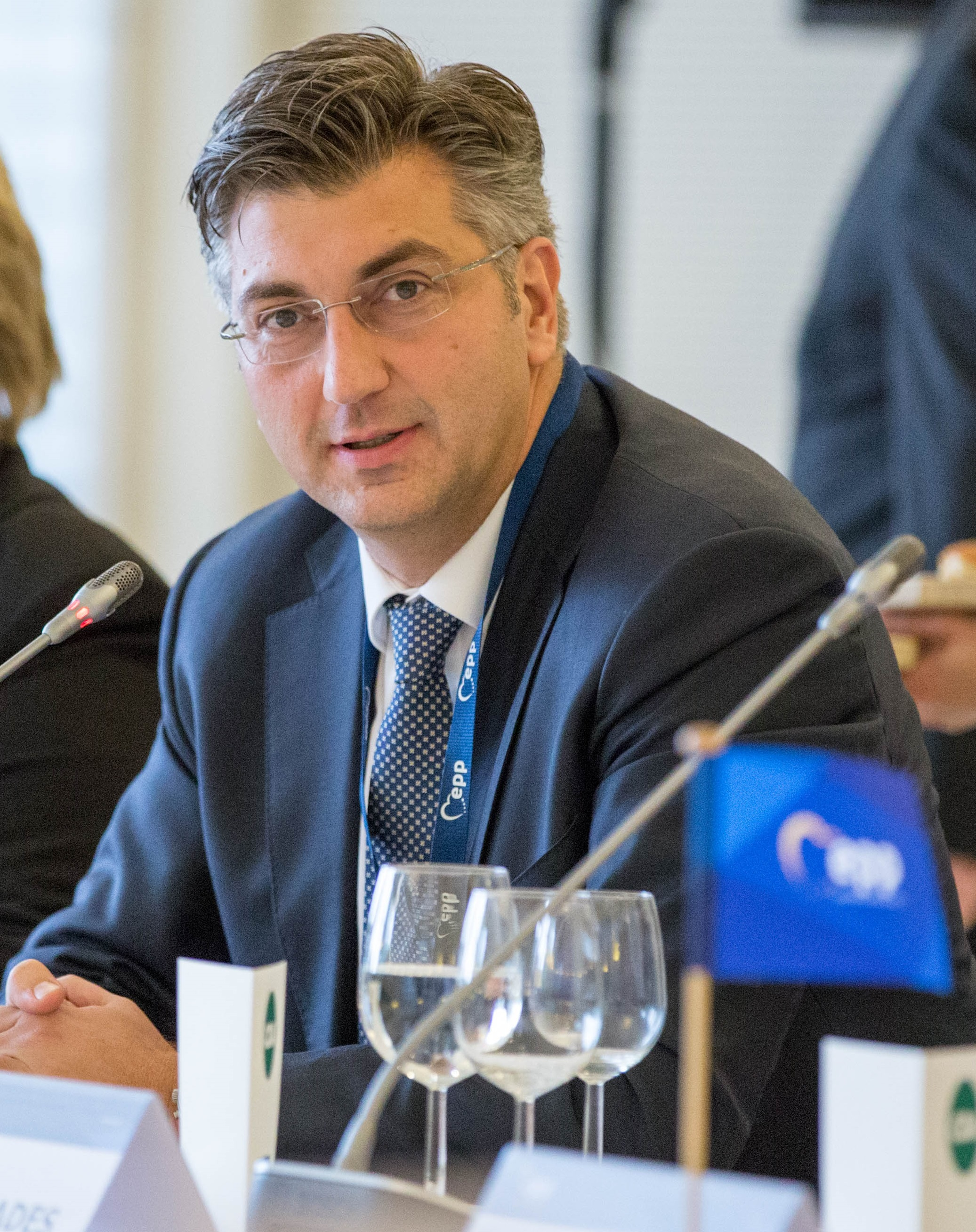 Croatian Prime Minister Andrej Plenković